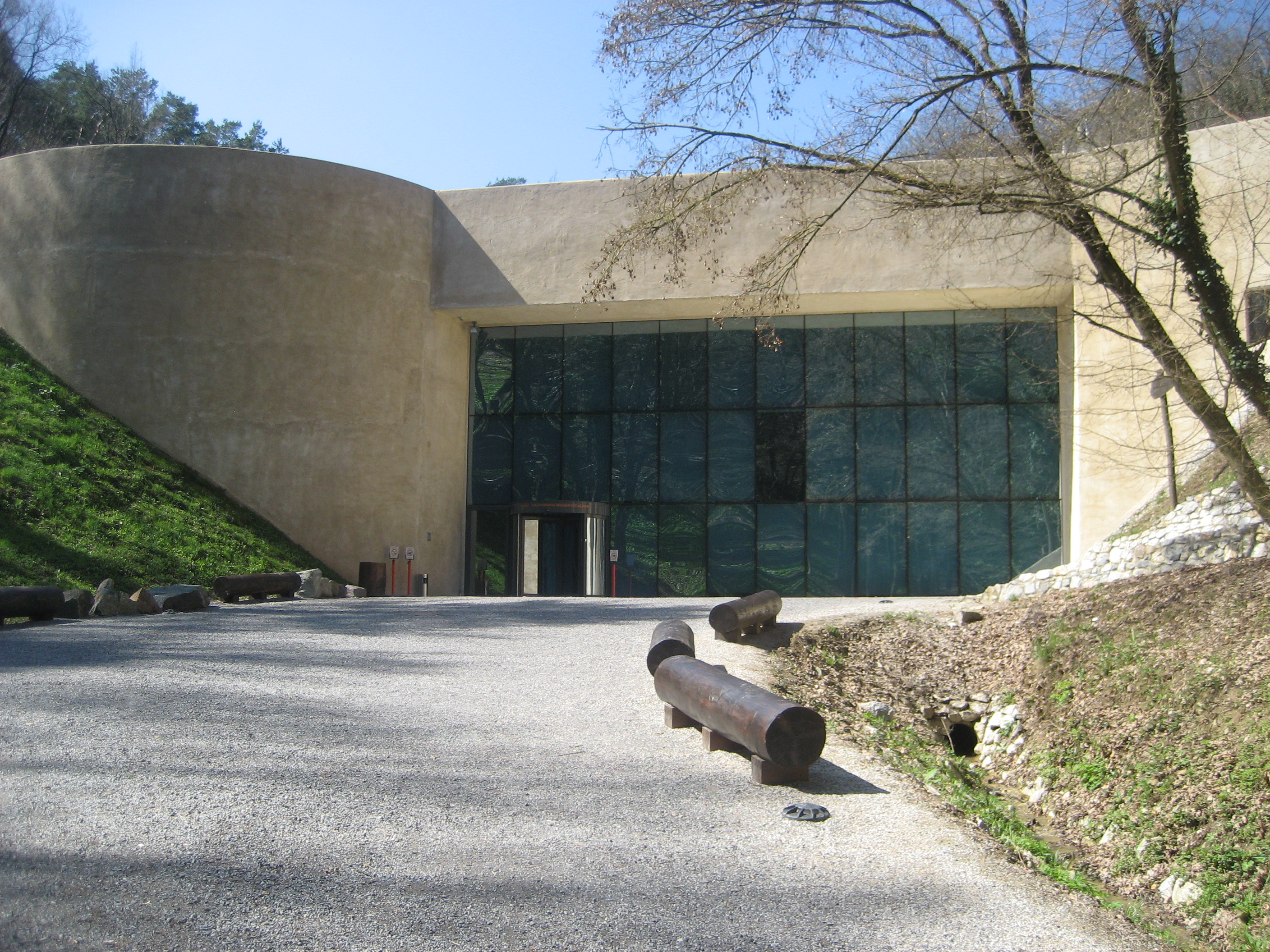 Neanderthal Museum, Krapina